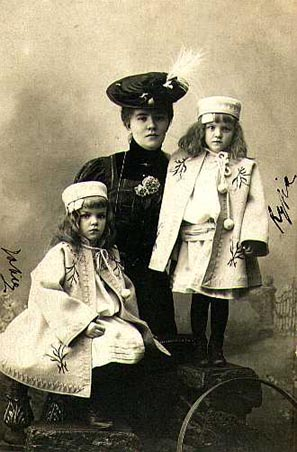 Polish romance writer.